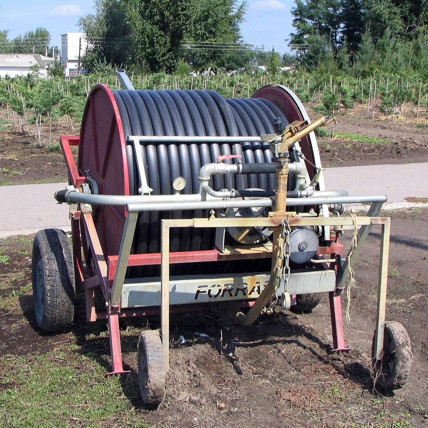 Traveling sprinkler, Juniperus kert, Kecskemet